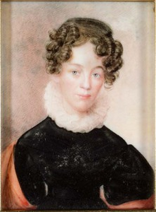 Miniature of Lucy Sheldon Beach by Anson Dickinson